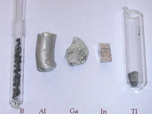 Assortment of boron group elements.